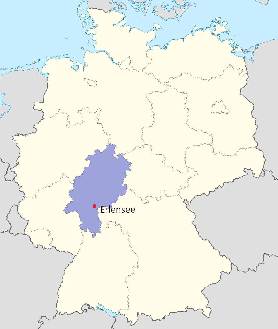 Outline map of Germany showing location of Erlensee, Hesse